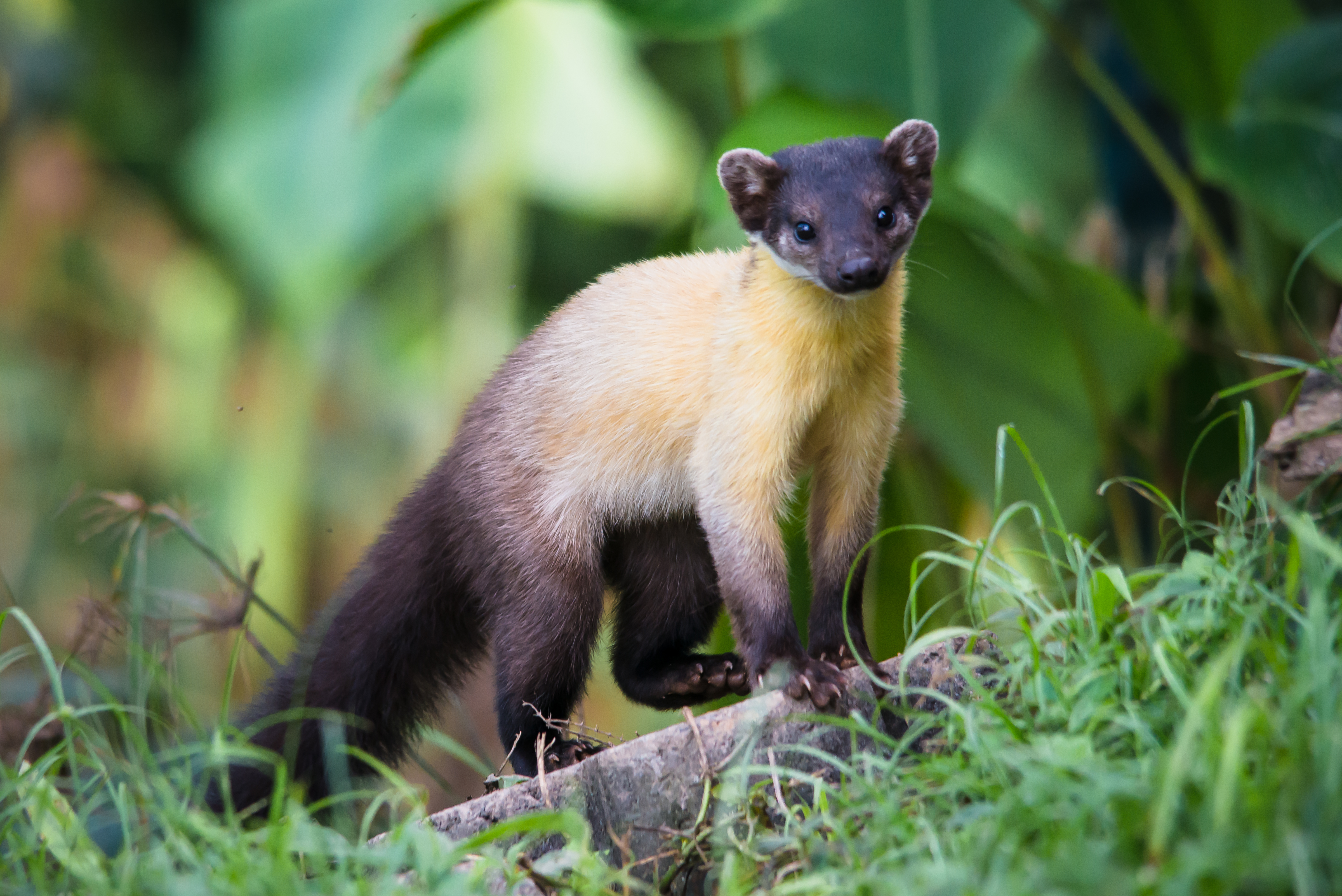 Martes flavigula, yellow-throated marten in wild - Kaeng Krachan National Park Photo by Thai National Parks